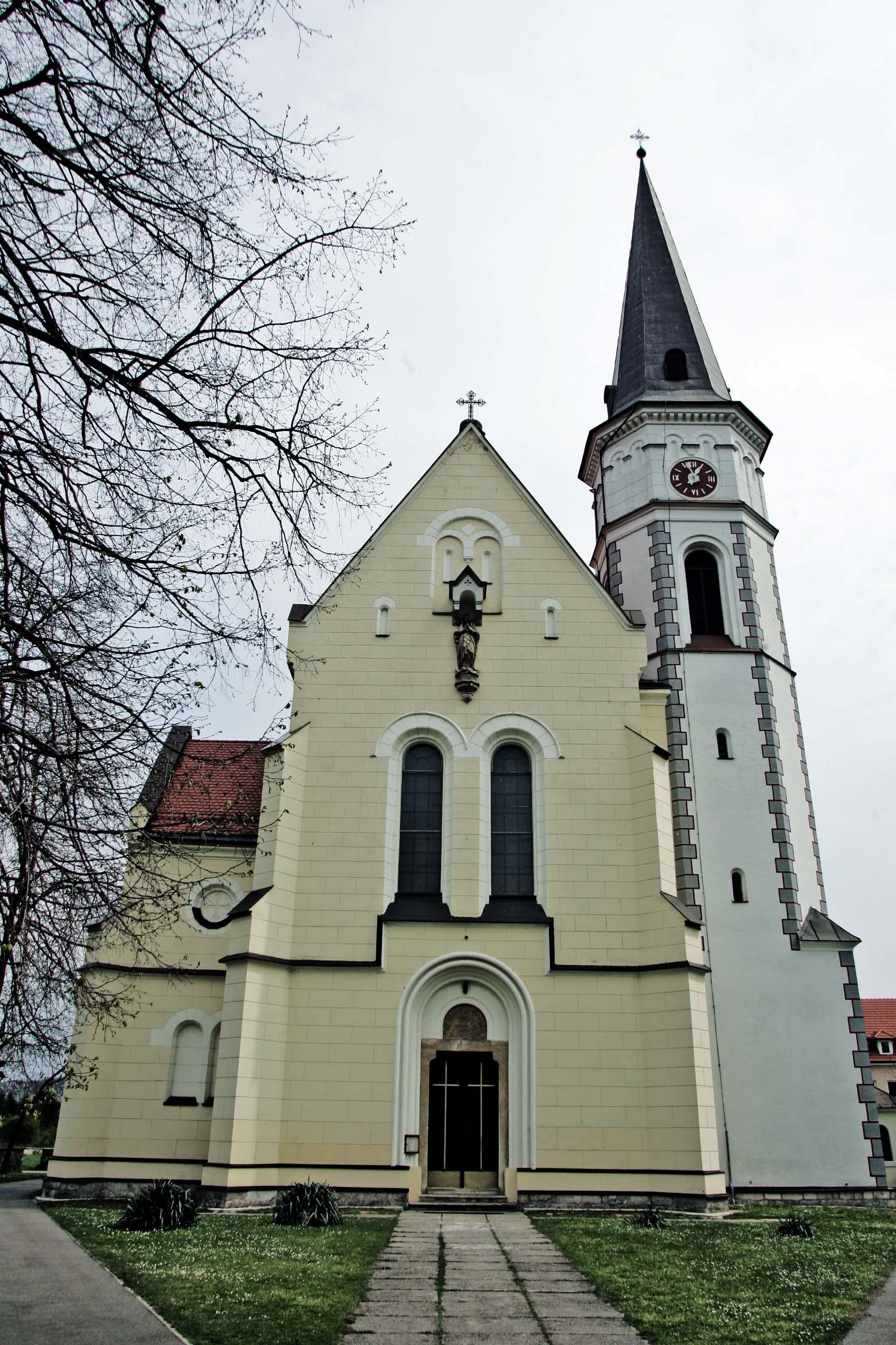 Church of the Assumption in Dobova